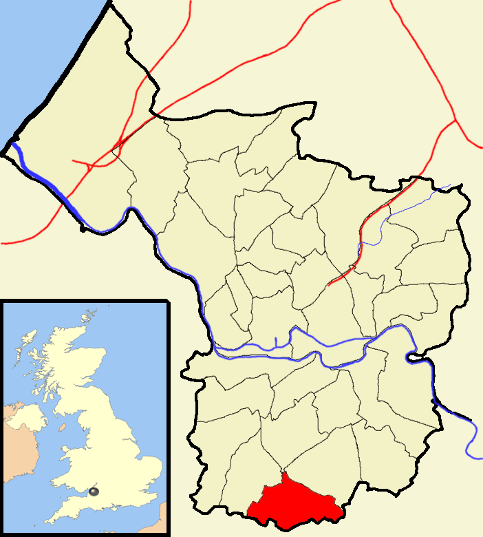 Whitchurch, shown within Bristol.